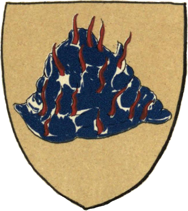 The arms of "Le sire de beue" [MacLeod of Dunvegan] which appear in the Armorial de Berry.